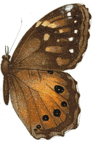 SeitzFaunaAfricanaXIII dendrophilus synonym of Paralethe dendrophilus (Trimen, 1862)